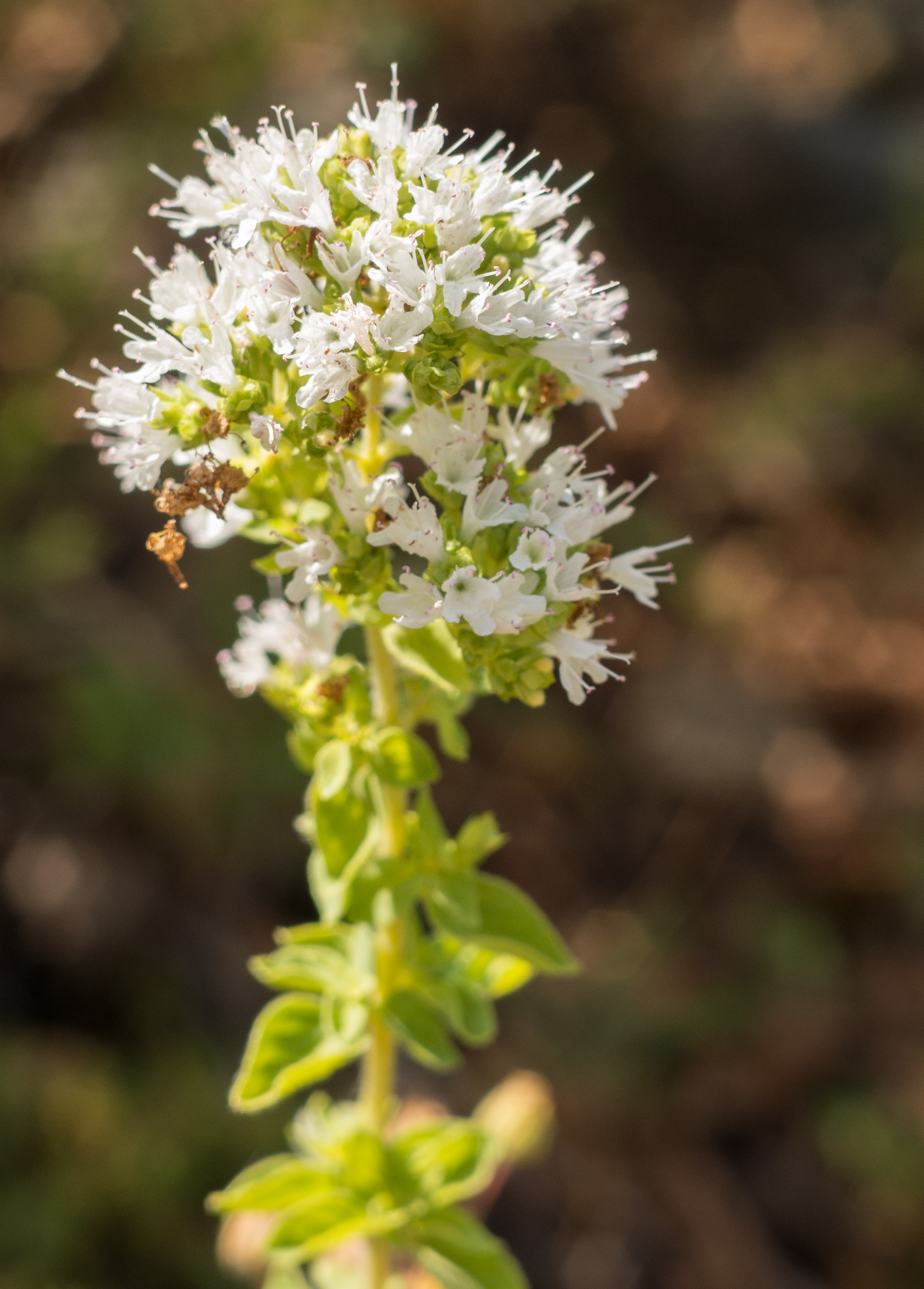 The white Greek Oregano (Origanum vulgare subsp. hirtum)